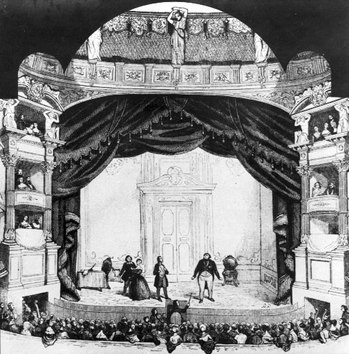 Staging for the premiere of Donizetti's comic opera Don Pasquale as performed by the Théâtre Italien at the Salle Ventadour in Paris, beginning on 3 January 1843